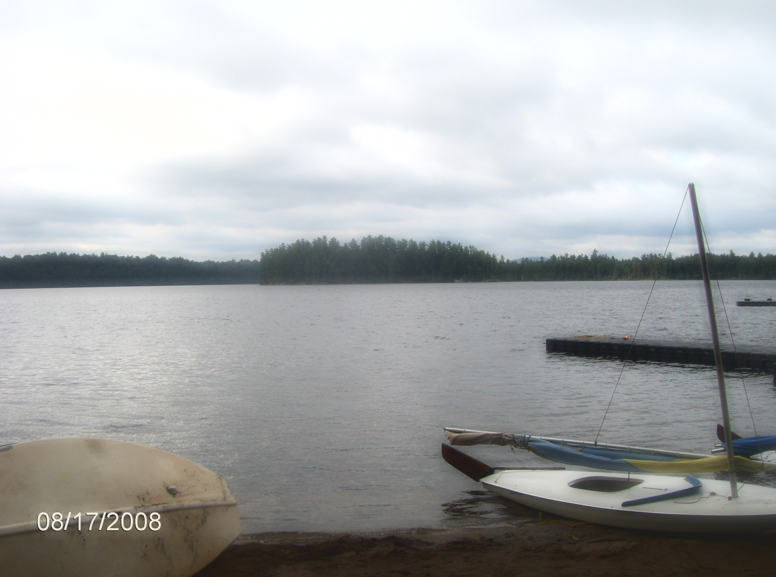 Massawepie Lake, Massawepie Scout Camp. View from Pioneer beach, looking toward Mountaineer, and Pontiac Point